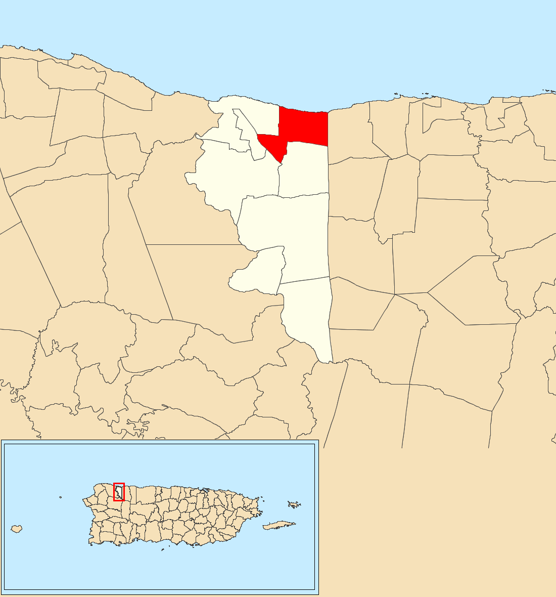 San José, Quebradillas, Puerto Rico locator map